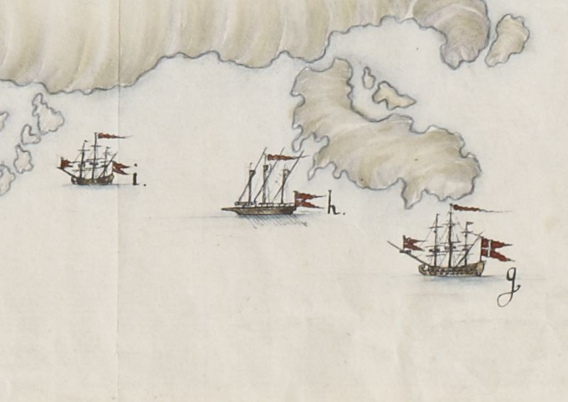 The Swedish vessels frigate Varberg (g), galley Prince Fredrik of Hessen (h) and frigate William Galley (i), here showing Danish colours after being captured by Danish forces at Marstrand, Sweden 1719.